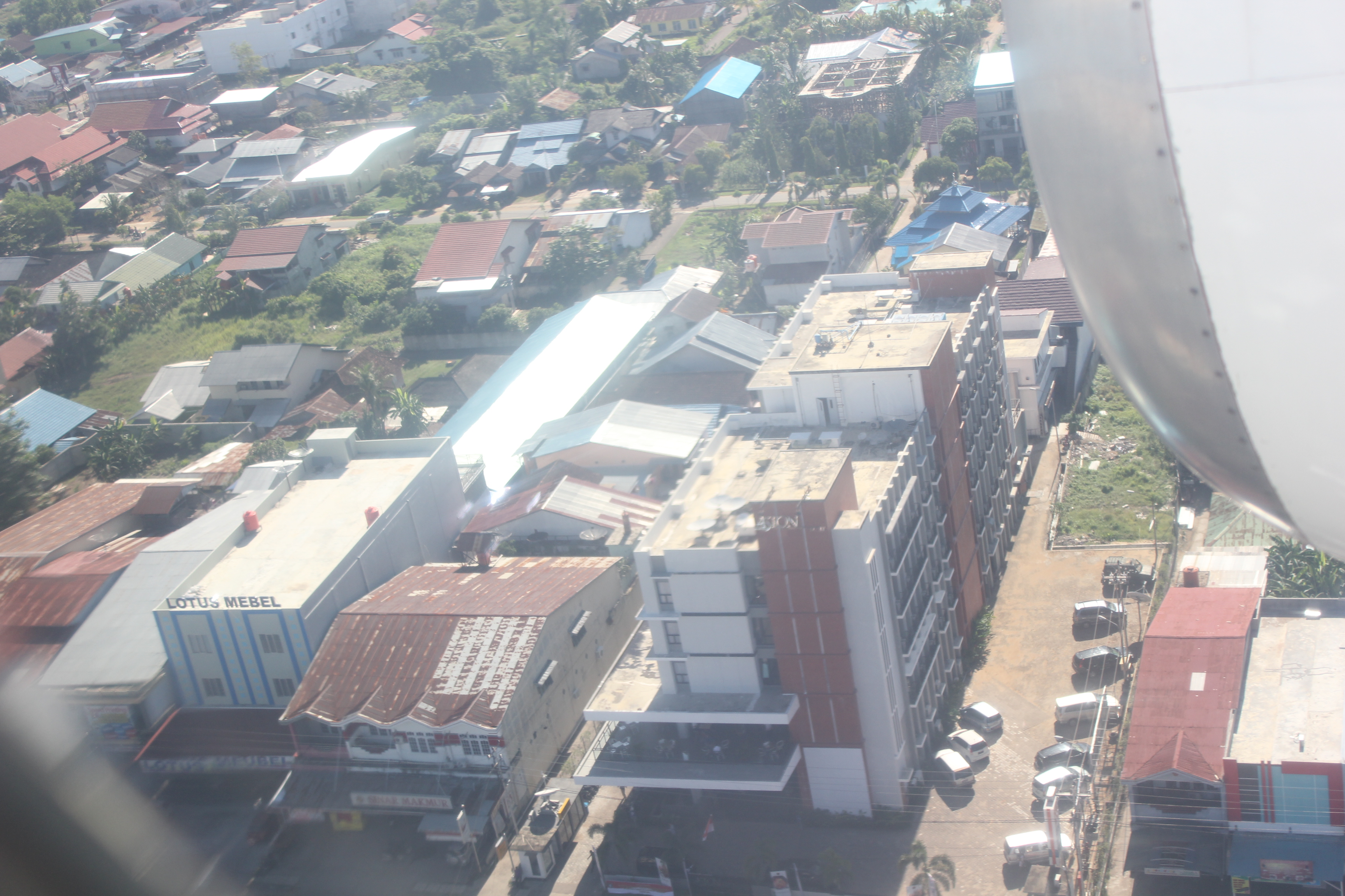 The hotel is located in the middle of the growing city. Next to the hotel, there are Sinar Makmur supermarket and Lotus Mebel that sells many kinds of mebel products.